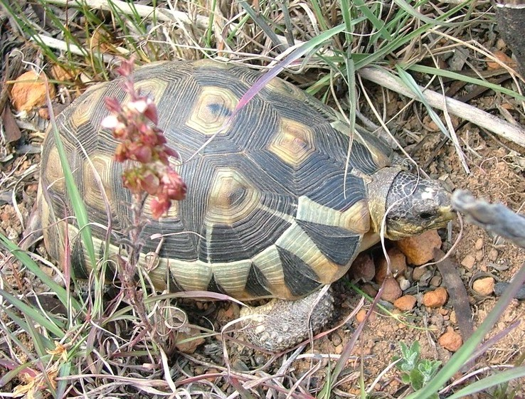 The Angulate Tortoise. Chersina angulata. Male. Cape. South Africa.